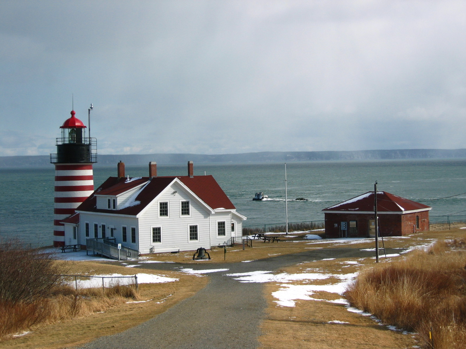 Foreground, West Quoddy Head Light, Lubec, Maine; background, Quoddy Narrows and Grand Manan Island amid a snow storm